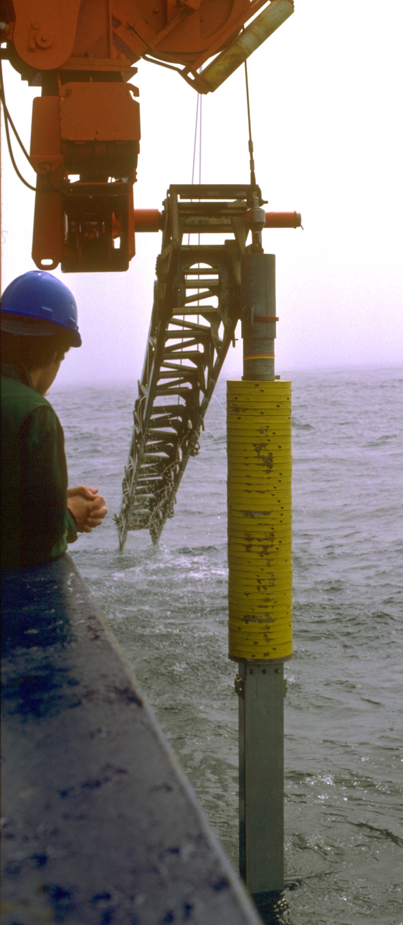 Gravity corer (type Kasten corer) used to take sediment cores from the ocean floor. The yellow top is a lead weight of 3.5 t, below is a metal box (30 x 30 cm) which can be extended in 5 m sections to a length of 20 m. The image shows a deployment of the Kasten corer on board the research vessel Polarstern in the Southern Ocean.